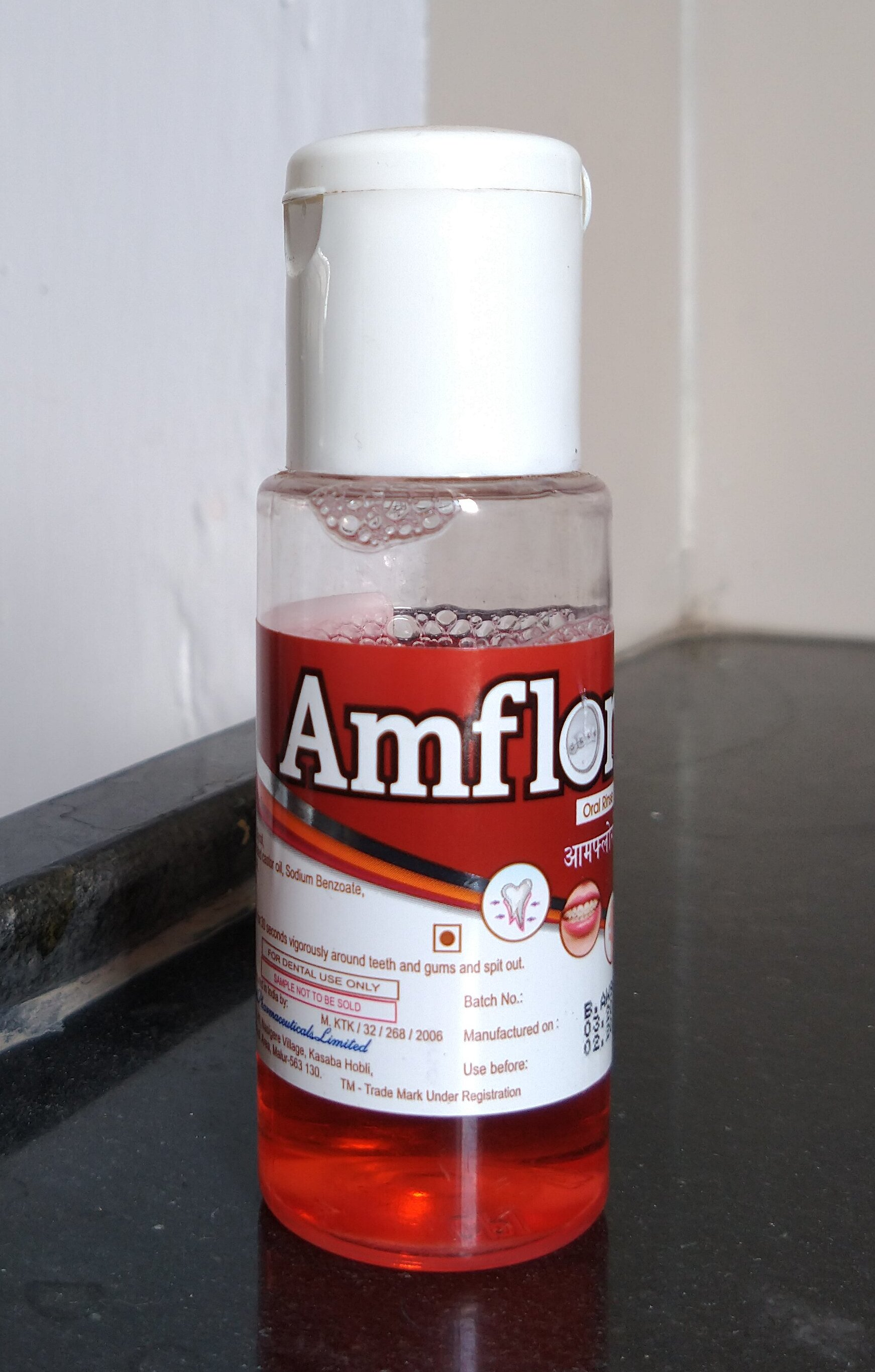 Amflor Amine Floride mouthwash